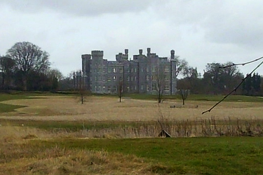 Killeen Castle, Co Meath Killeen Castle, the former home of the Lord of Fingall, was damaged by fire in 1981. It has been restored and is now an exclusive Country Club and hotel, especially for golfers. The original castle was built in 1181, but what can be seen today is a Victorian era rebuild, using some of the original material.